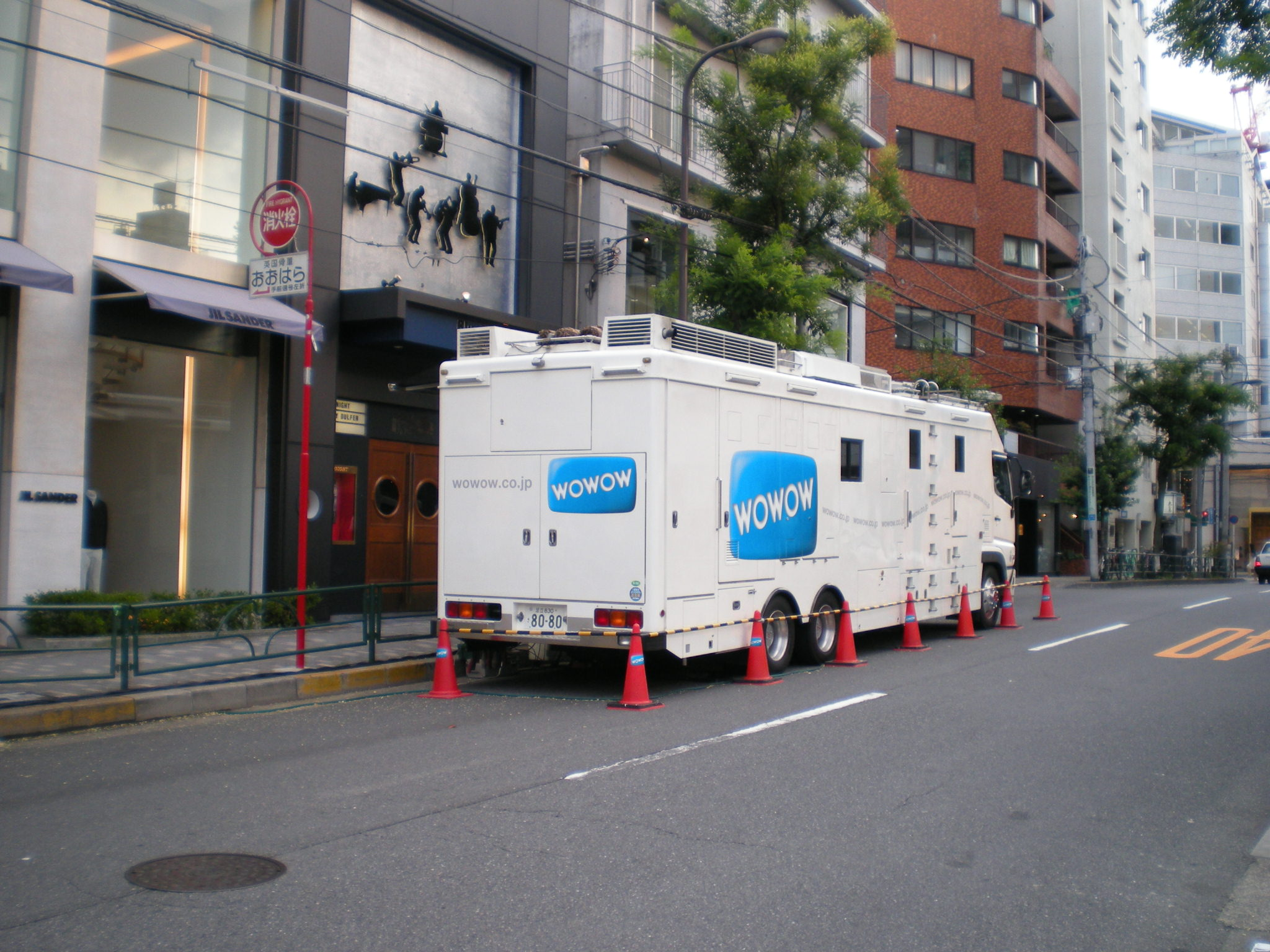 Blue Note Tokyo